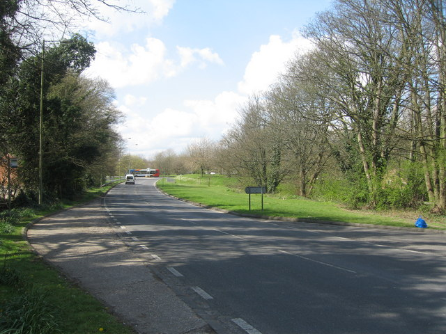 The Harrow Way Looking back towards Viables roundabout.